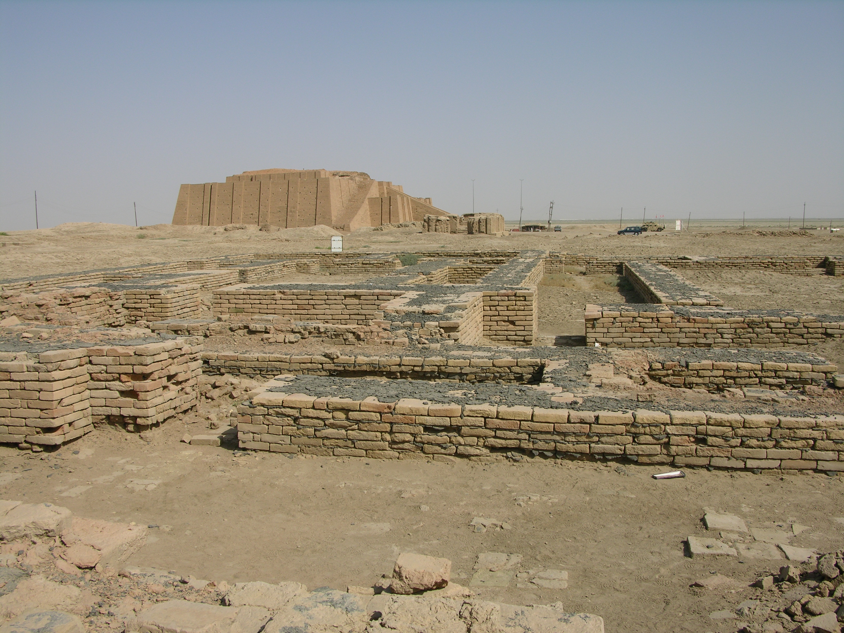 Ruins in the Town of Ur, Southern Iraq